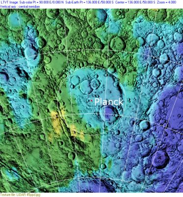 Clementine LIDAR Altimeter texture from PDS Map-a-Planet remapped to north-up aerial view by LTVT. The dot is the center position and the white circle the main ring position. Grid spacing = 10 degrees.